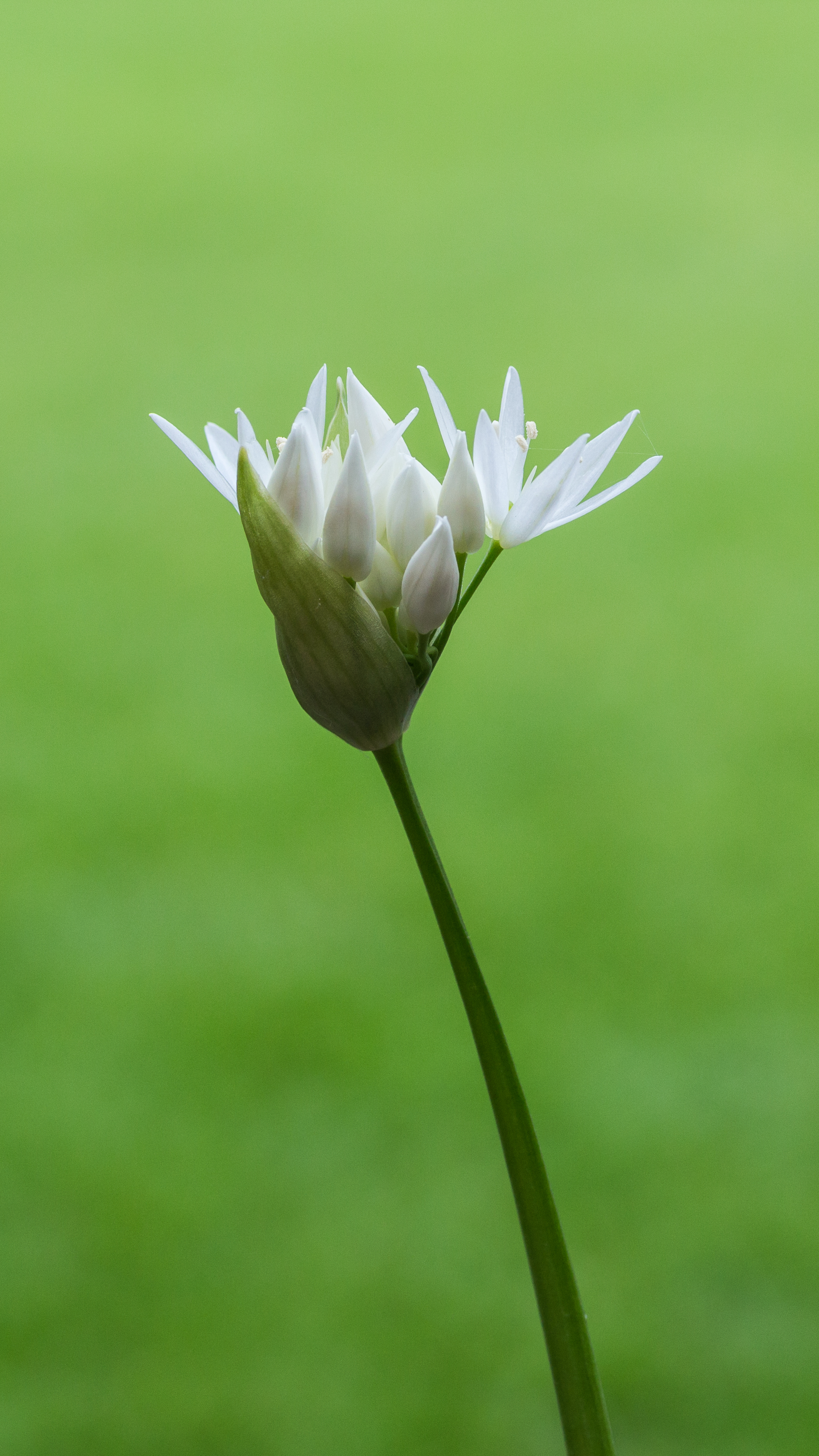 Allium ursinum ramsons. Small delicate flowers and flower buds on a slender stem.